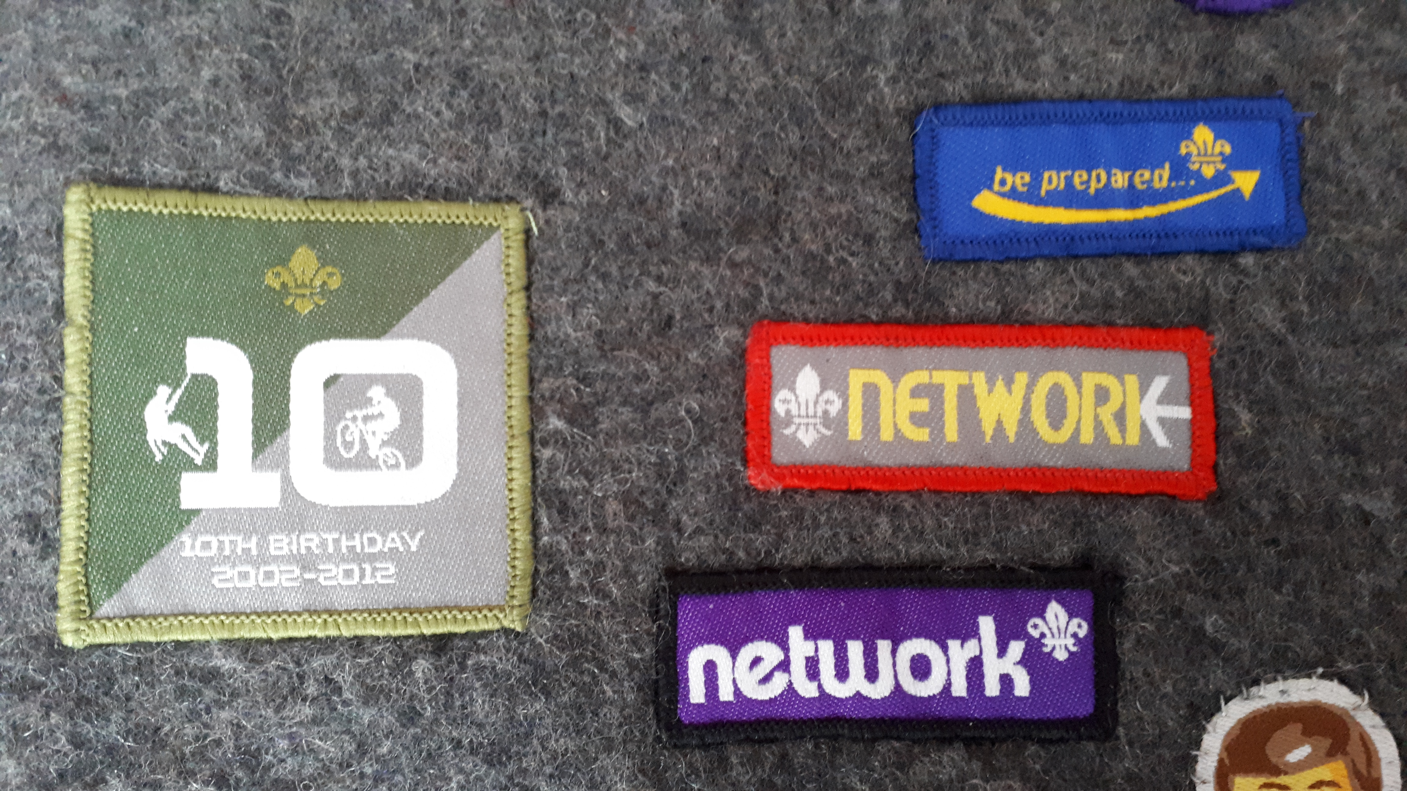 A close up of a scout blanket in the UK showing four badges from the Scout Network section of the The Scout Association. The square badge on the left celebrates the 10th birthday of the Explorer Scout and Scout Network sections. The top right blue badge is the Moving On award from Explorer scouts to Scout Network. The remaining two are Scout Network identifying badges, added to an adult uniform to identify the person as being a member of the Scout Network. The red bordered one is older used until 2015 and the purple was in use between 2015 and 2019.